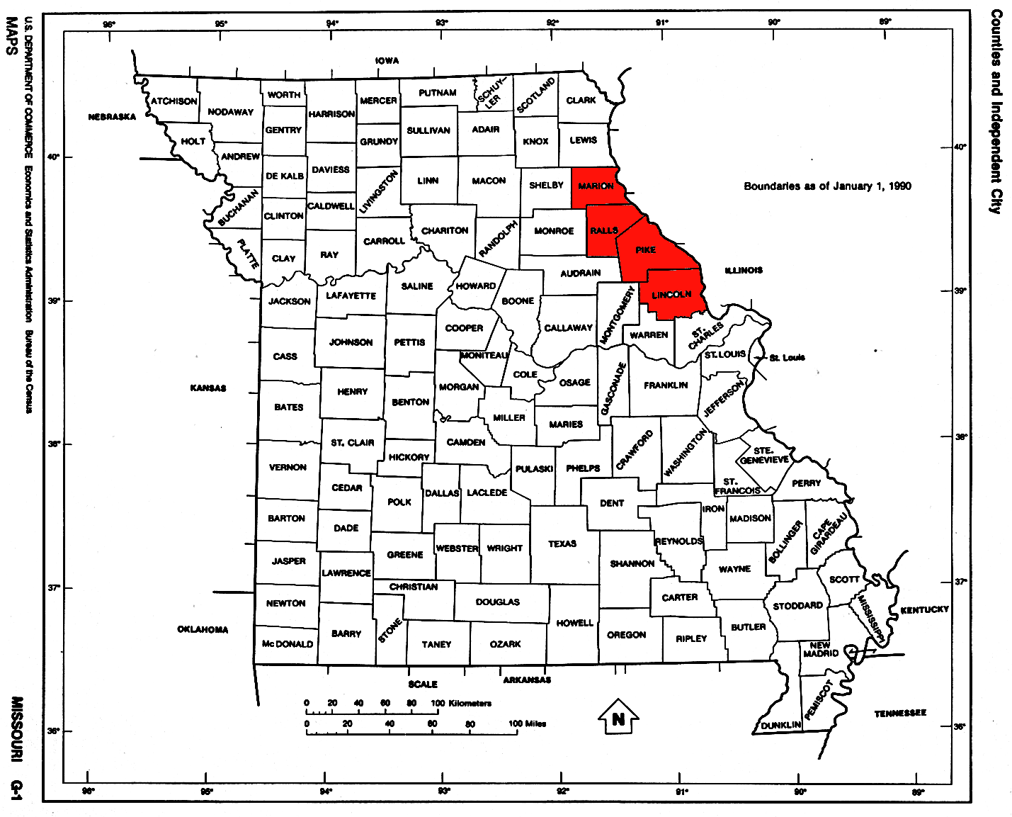 Edited Image:Missouri counties.gif in w: .